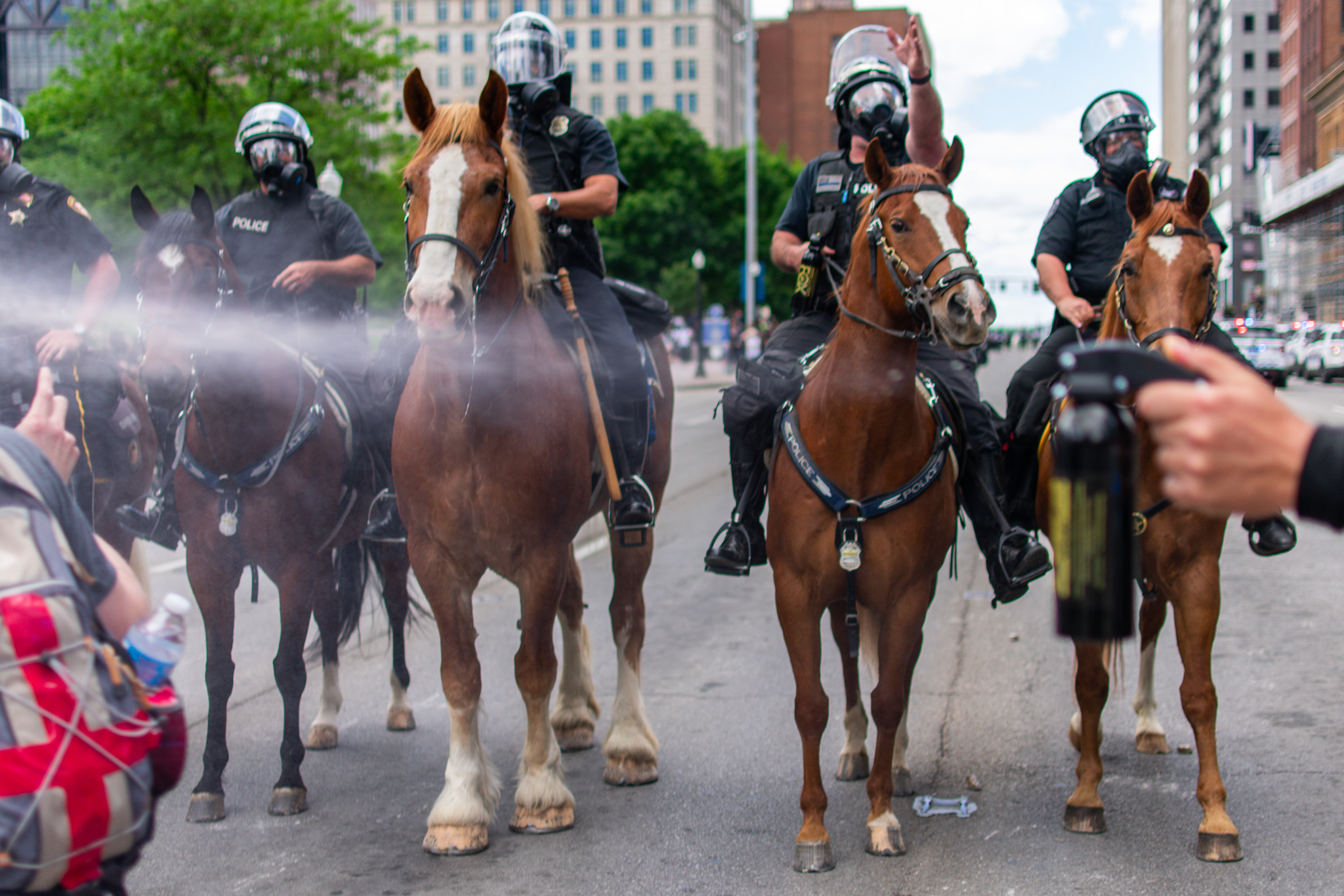 Police pepper spray medic, May 30th 2020